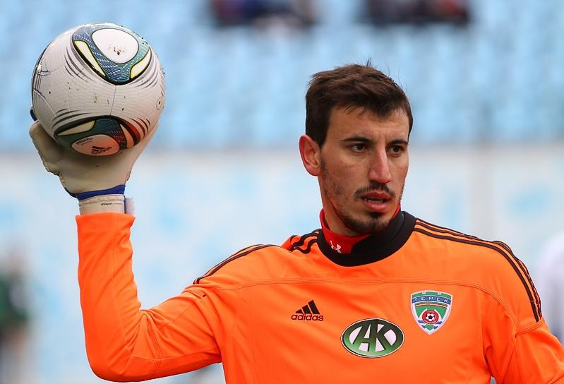 Soslan Dzhanayev with FC Terek Grozny.